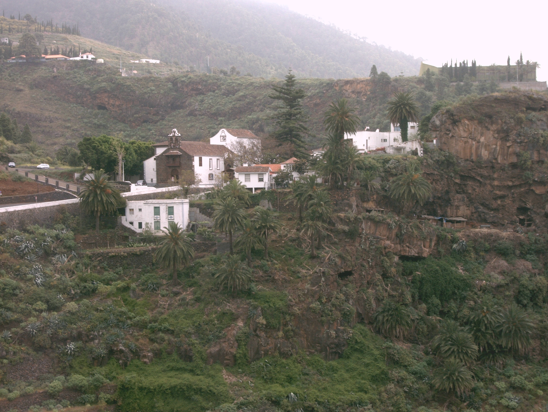 Church in Las Nieves